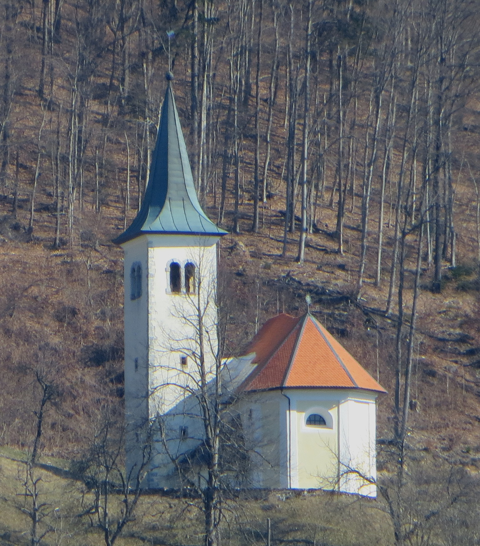 Saint Gertrude's Church in Čabrače, Municipality of Gorenja Vas–Poljane, Slovenia